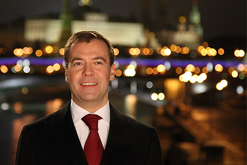 MOSCOW. New Year Address to the Nation.